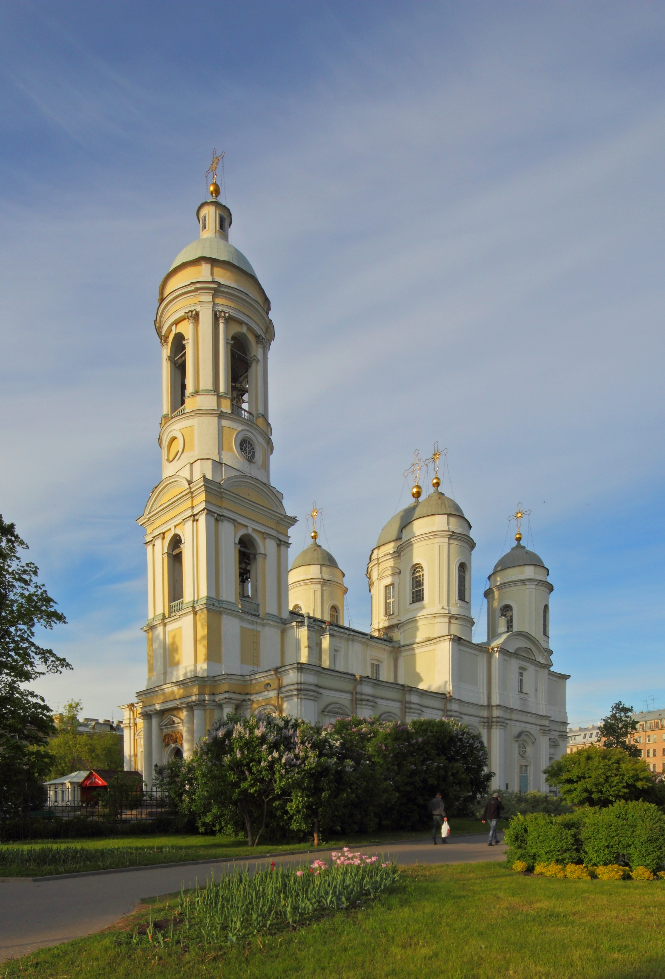 Saint Petersburg, Russia. Prince Vladimir Cathedral.